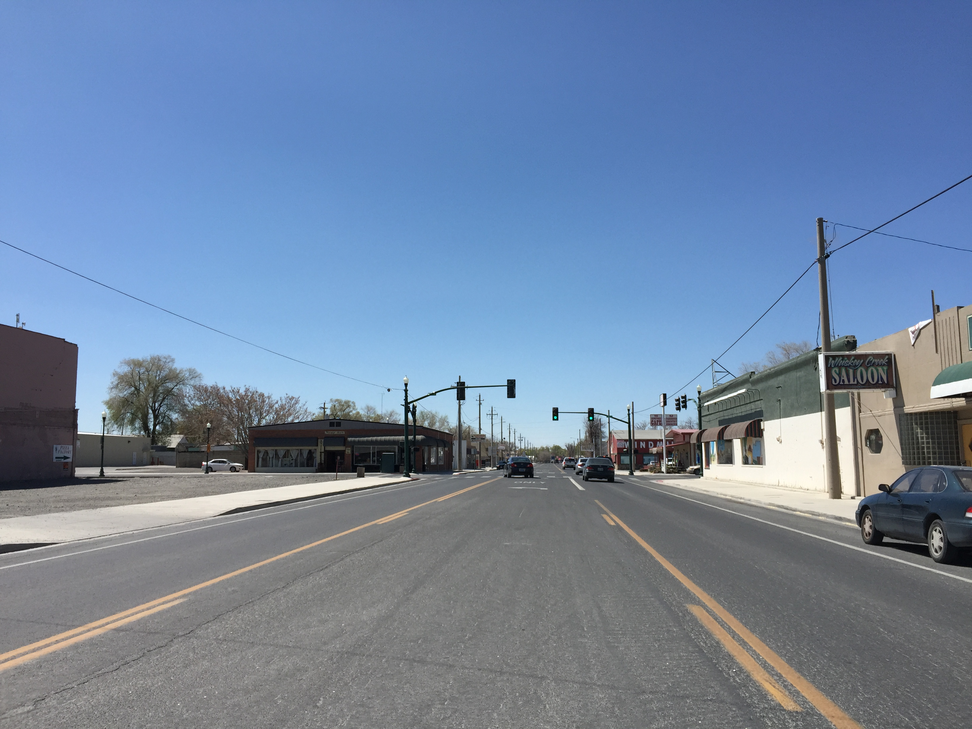 View southwest along Cornell Avenue (Nevada State Route 396) near Main Street (Nevada State Route 398) in Lovelock, Nevada